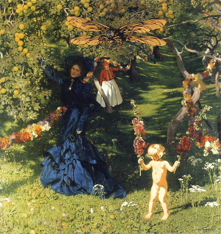 The strange garden